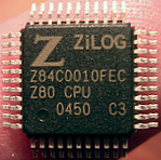 Spare prototype component from a finished project (Modern Z80 CPU in LQFP package).